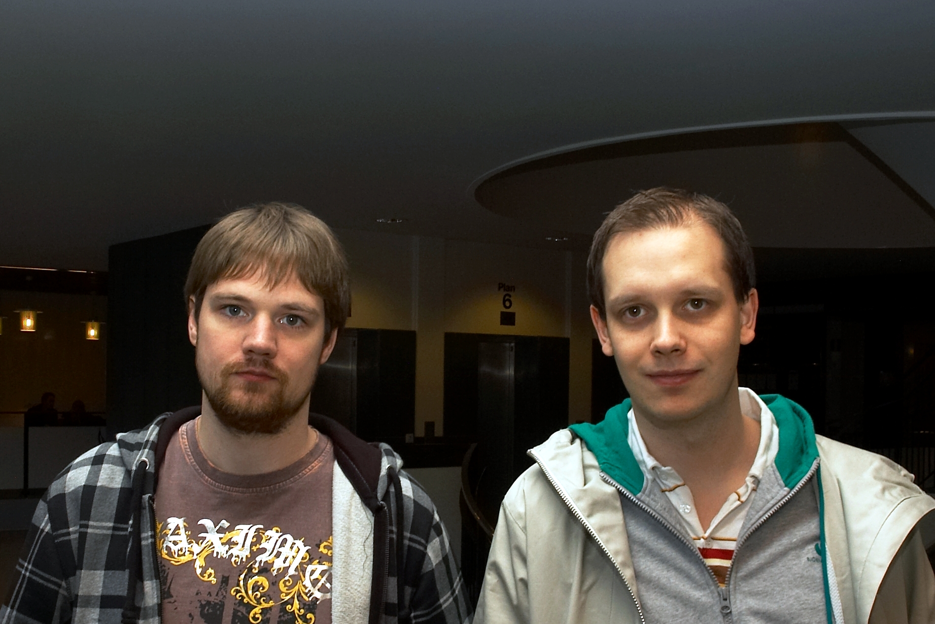 Fredrik Neij and Peter Sunde during TPB trial.